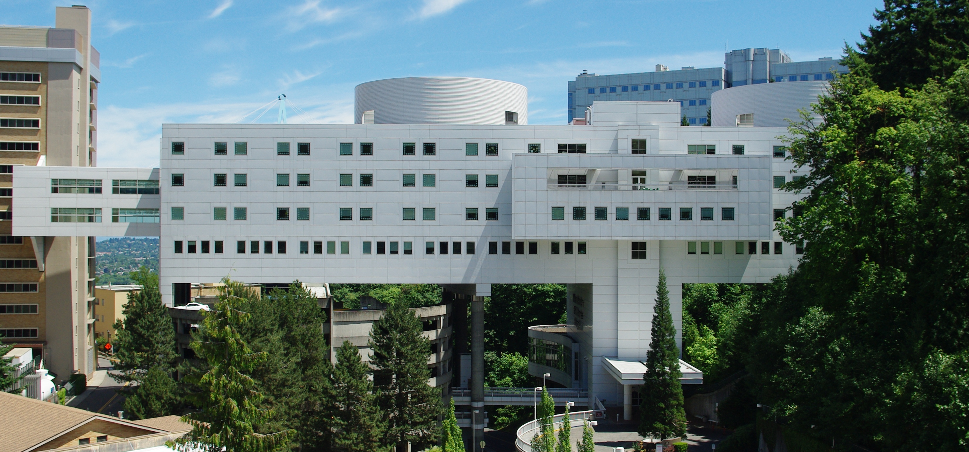 Doernbecher Children's Hospital at Oregon Health & Science University, in Portland, Oregon.